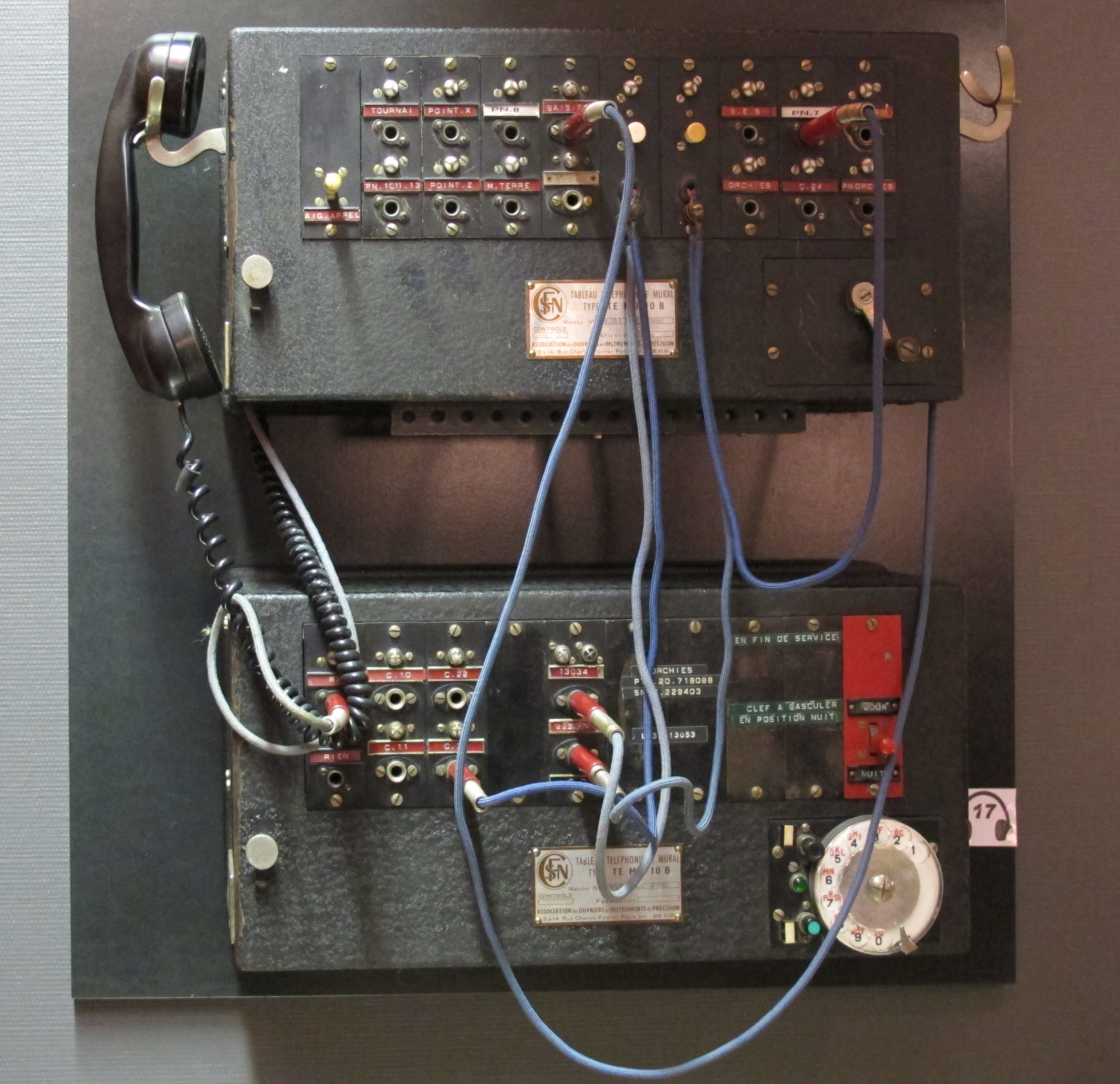 Phone board of Ascq railway station, made by Association des ouvriers en instruments de précision, exposed at Mémorial Ascq 1944.